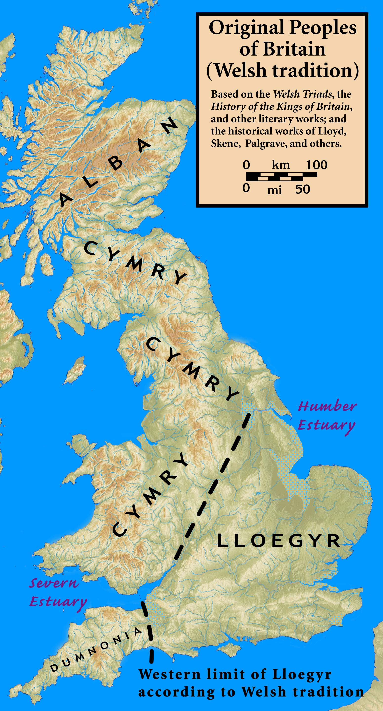 Original Peoples of Britain (Traditional), and showing the traditional Welsh demarcation of Lloegyr